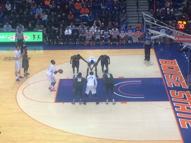 Boise State guard Mikey Thompson attempts a free throw during the Broncos game vs Colorado State on January 2, 2016 at Taco Bell Arena in Boise, Idaho.